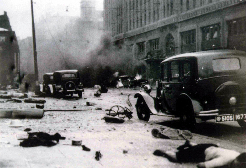 Bombing outside the Palace Hotel